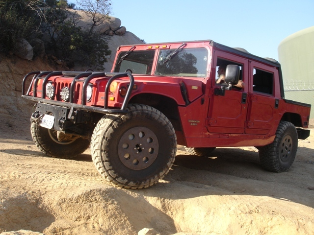 Hummer h1 rough terrain